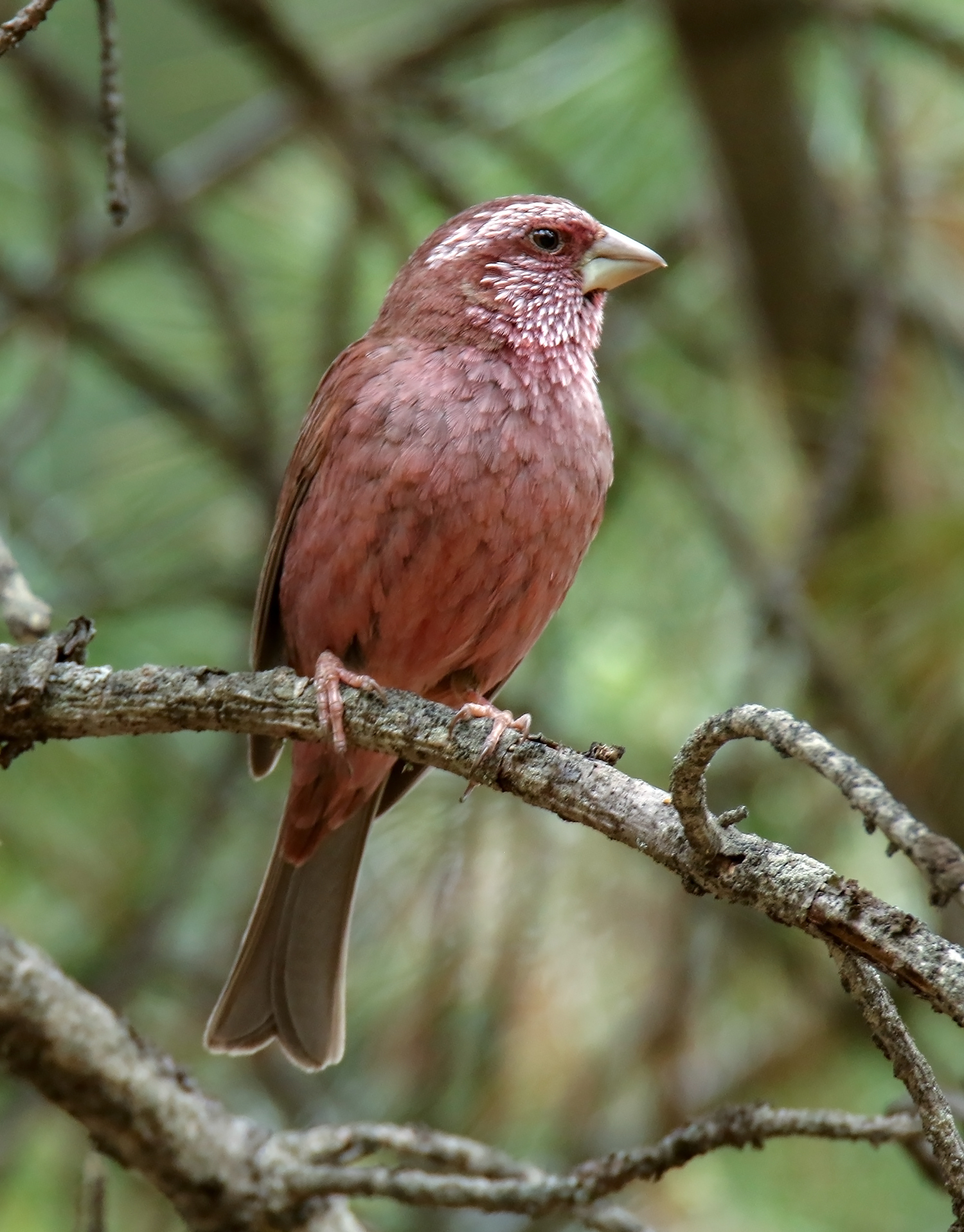 Red-Mantled Rosefinch (Carpodacus rhodochlamys) captured at Naltar, Gilgit, Gilgit-Baltistan, Pakistan with Canon EOS 7D Mark II